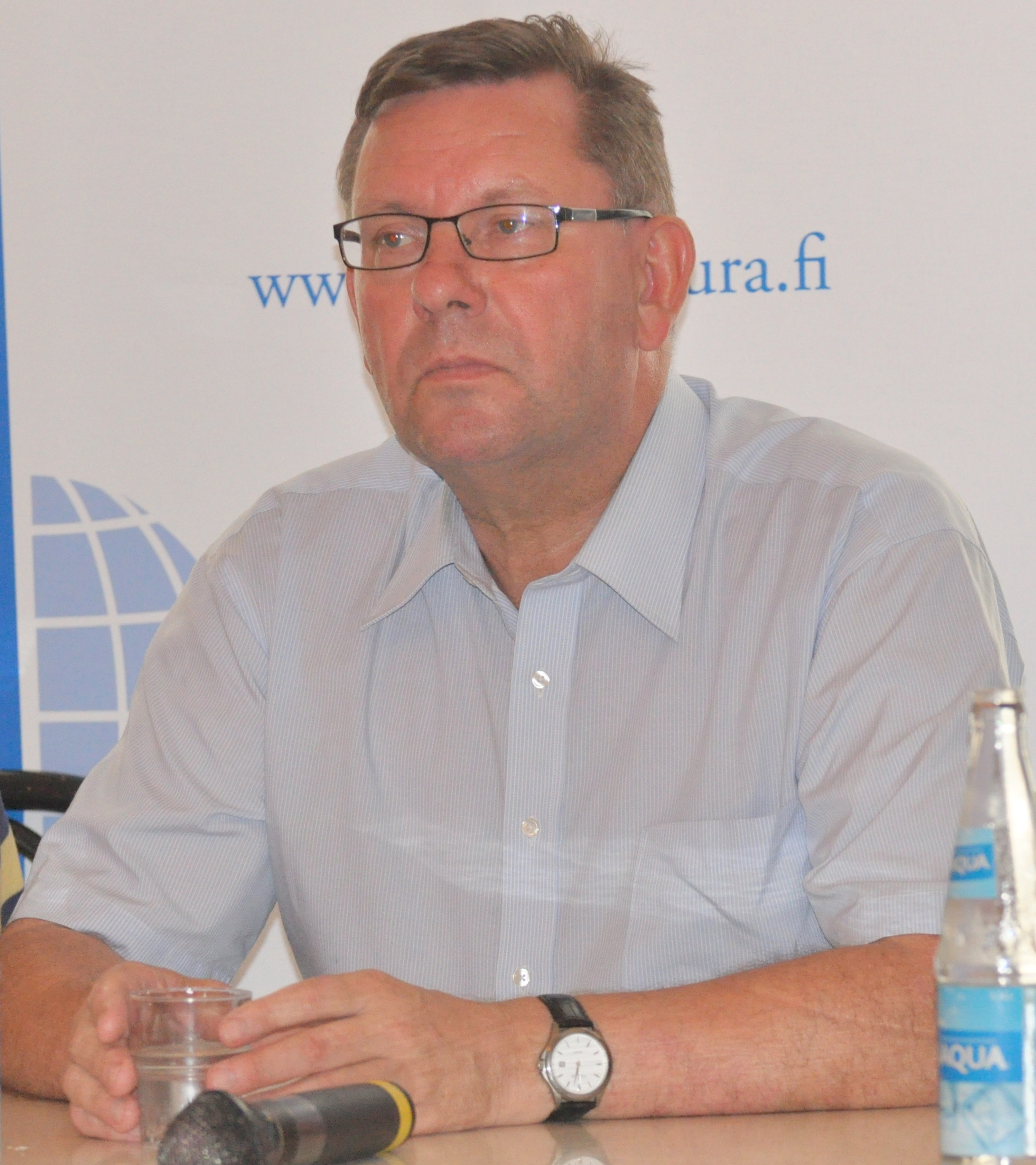 Finnish political scientist Raimo Väyrynen at the SuomiAreena 2010 in Pori.